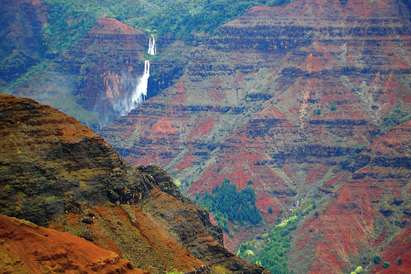 Kauai, Hawaii, USA, Waimea Canyon and Waipo'o Falls